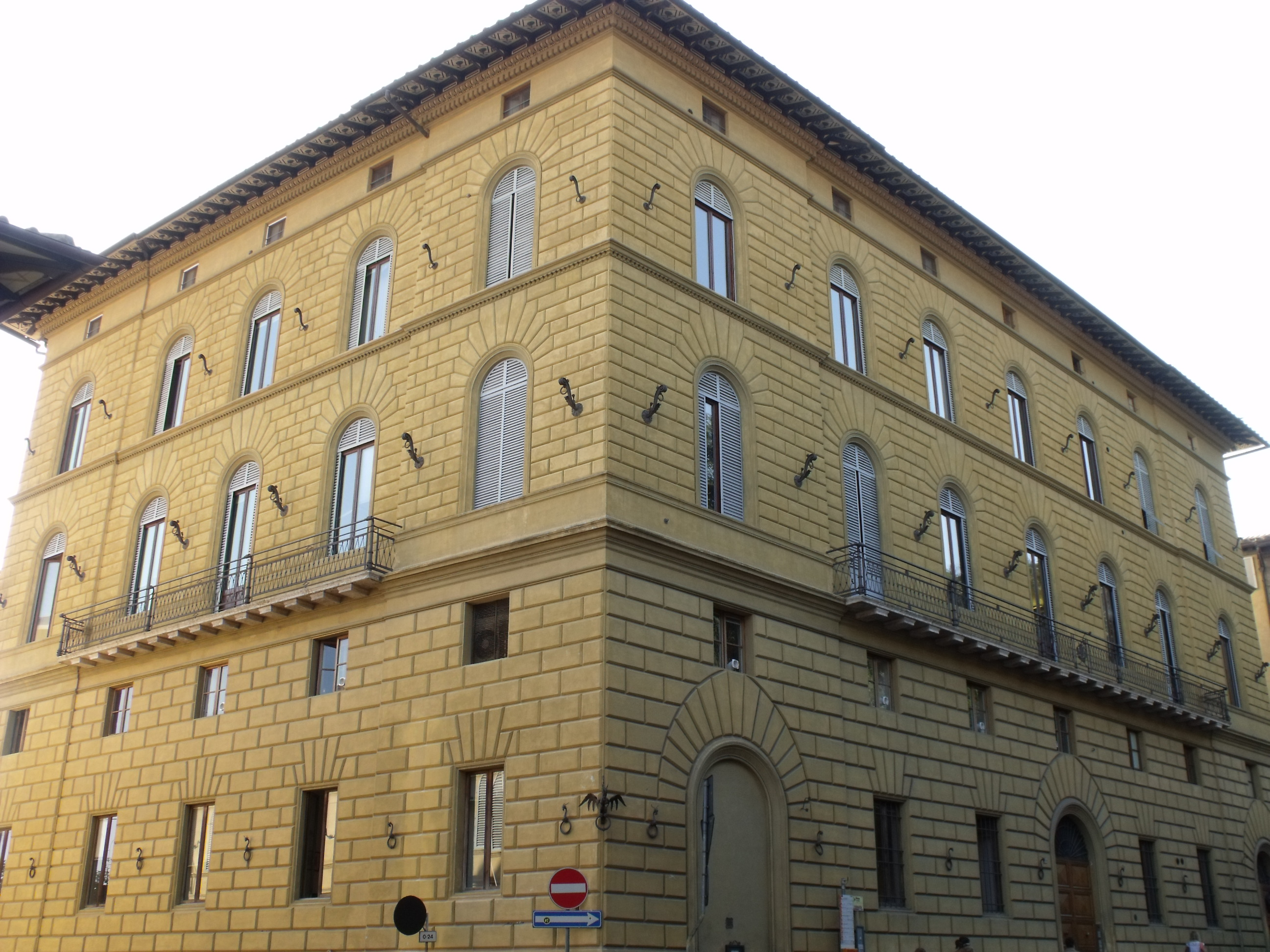 The Palazzo Franci, Via Garibaldi, Siena